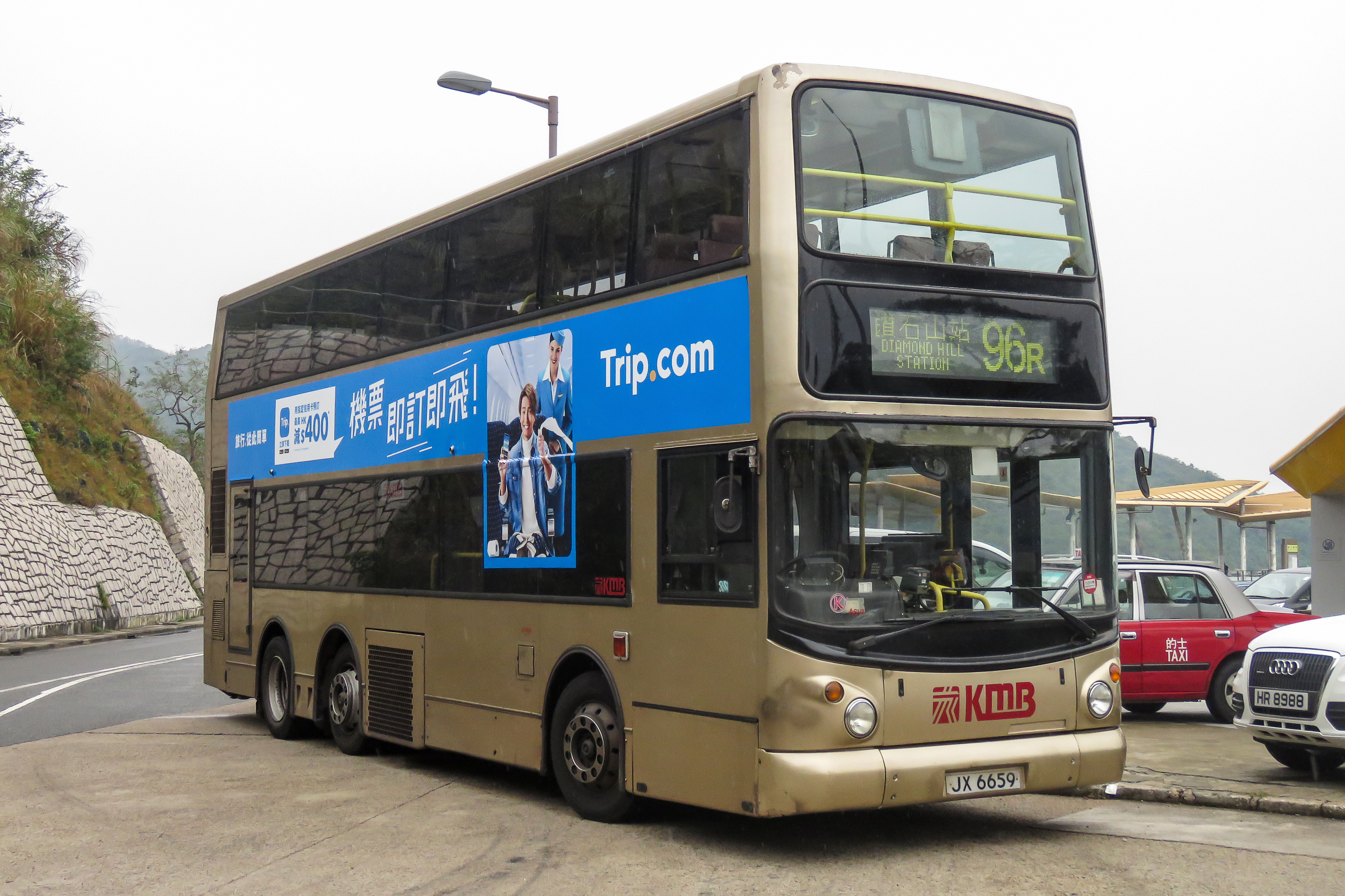 Direct service from Wong Shek Pier to Diamond Hill Station on Sundays and public holidays, but expensive - $18.7 for a ride.